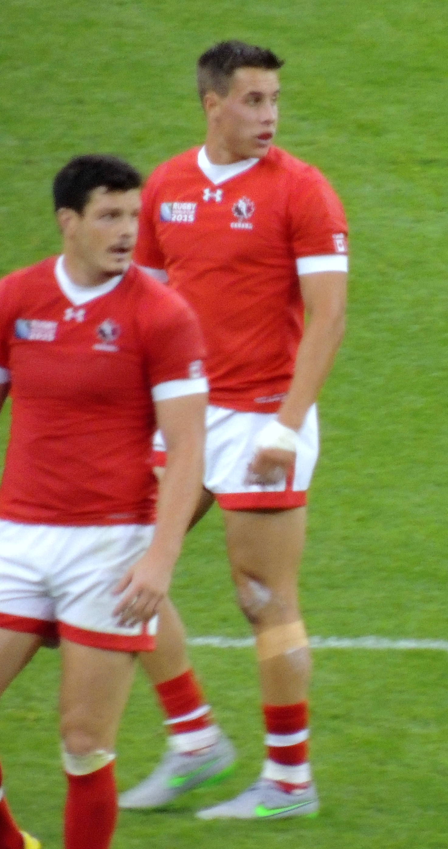 Canadian rugby union player Liam Underwood playing in 2015 Rugby World Cup game Ireland vs Canada at Millennium Stadium in Cardiff.